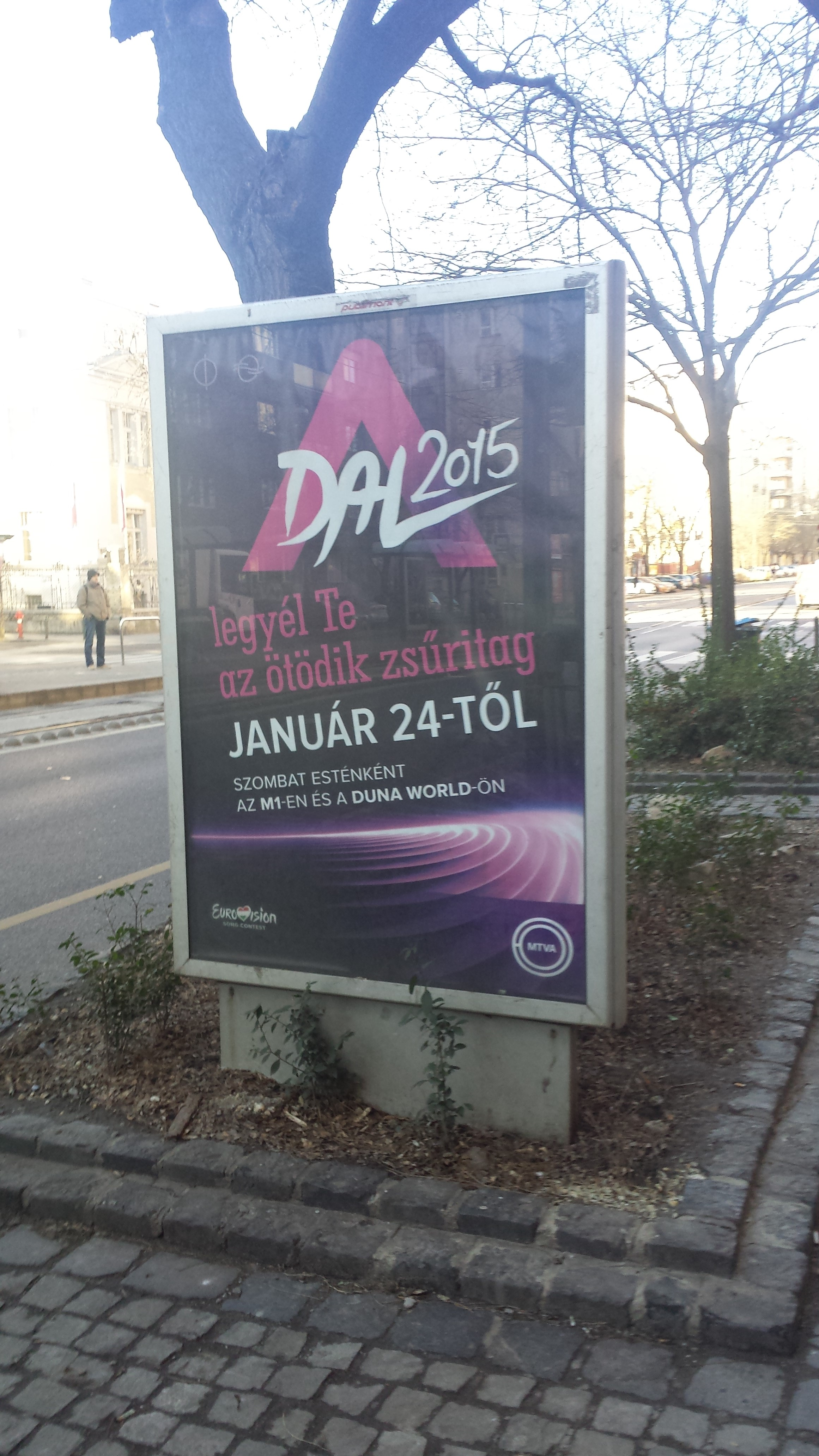 A Dal 2015 – advertisement in Budapest, District 11